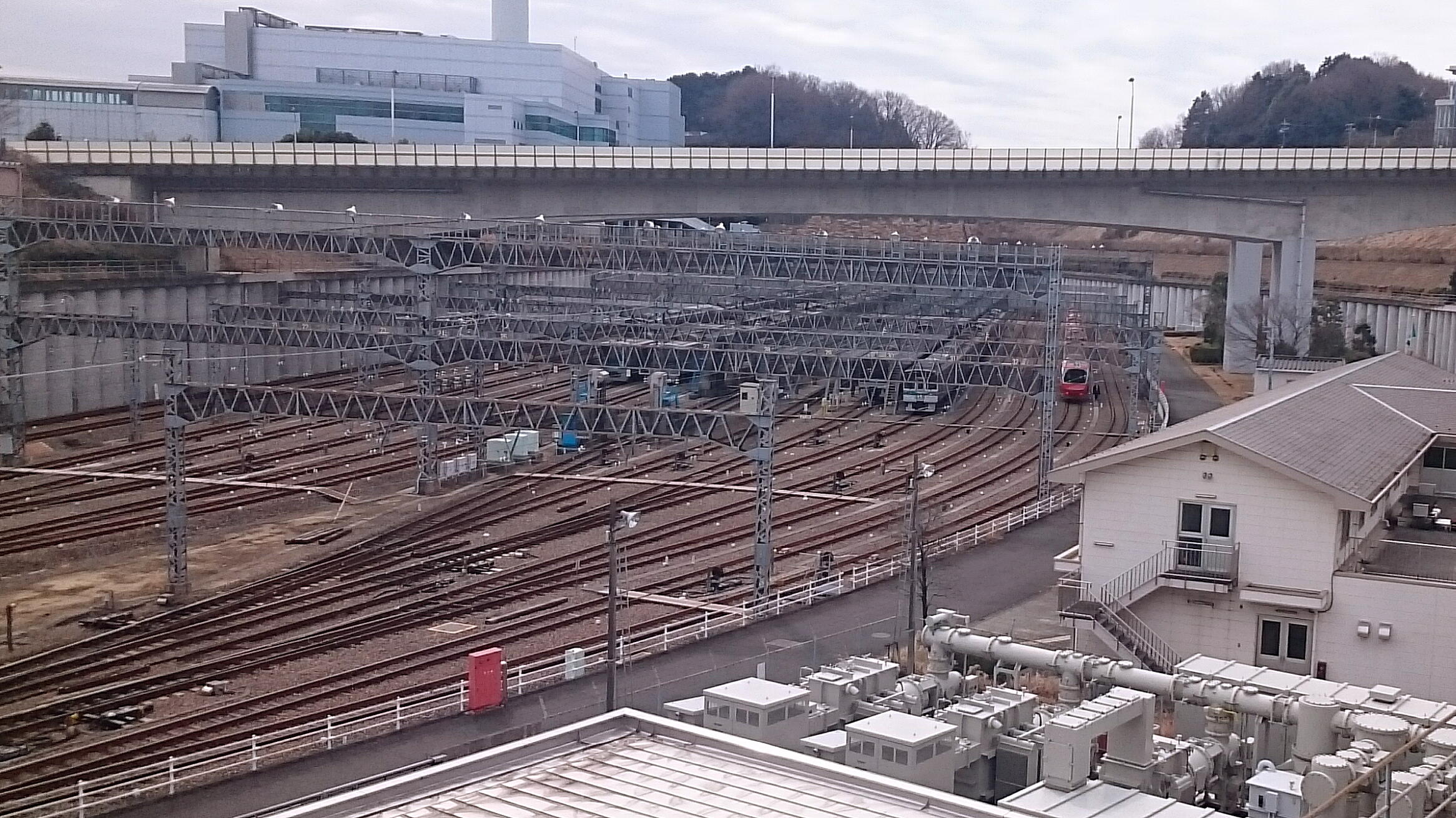 Odakyu Electric Railway Karakida Depot in Tama, Tokyo, Japan